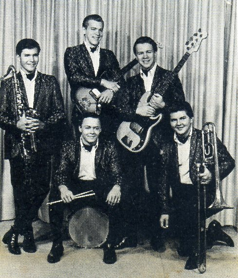 Business card